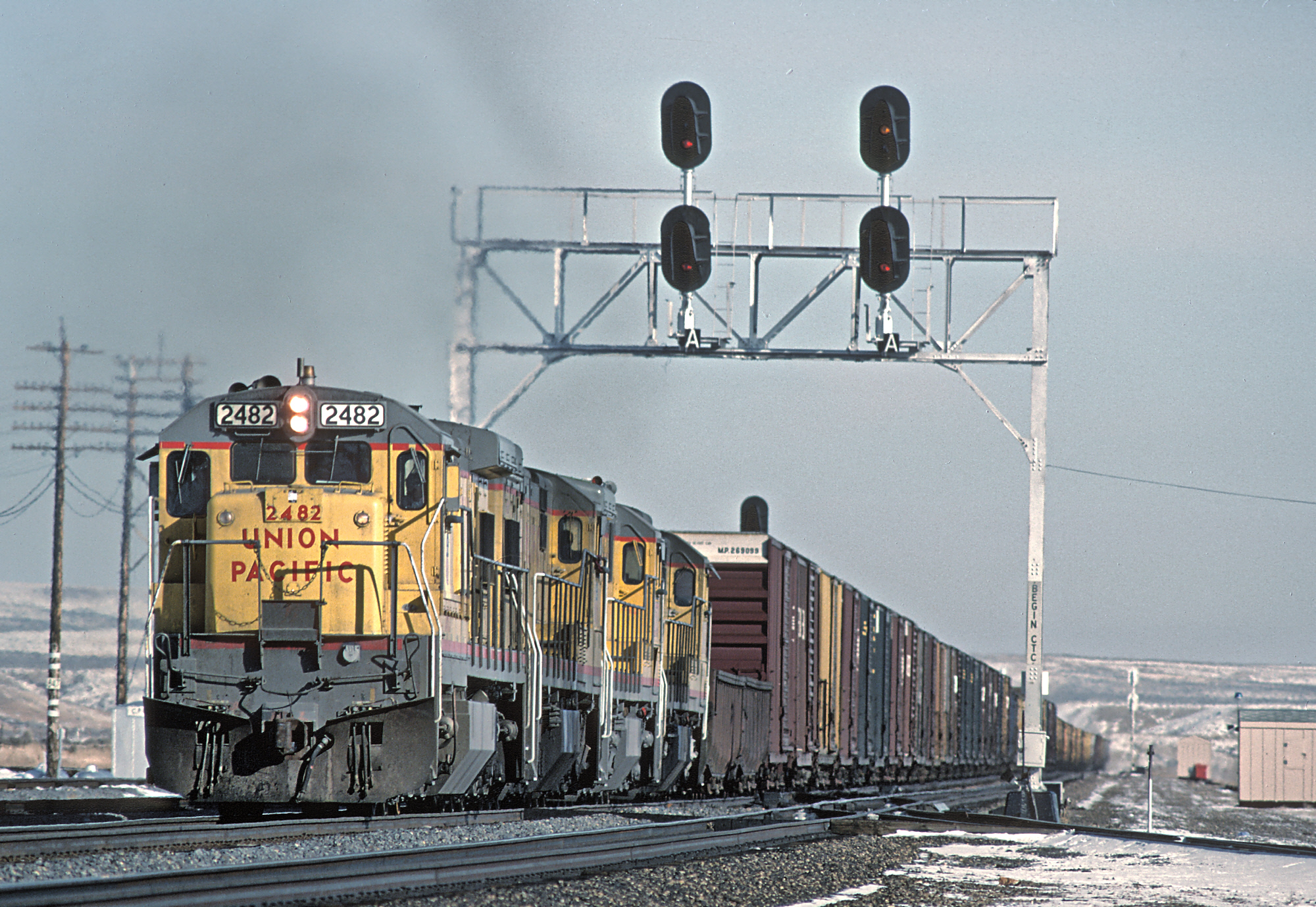 A Roger Puta Photograph